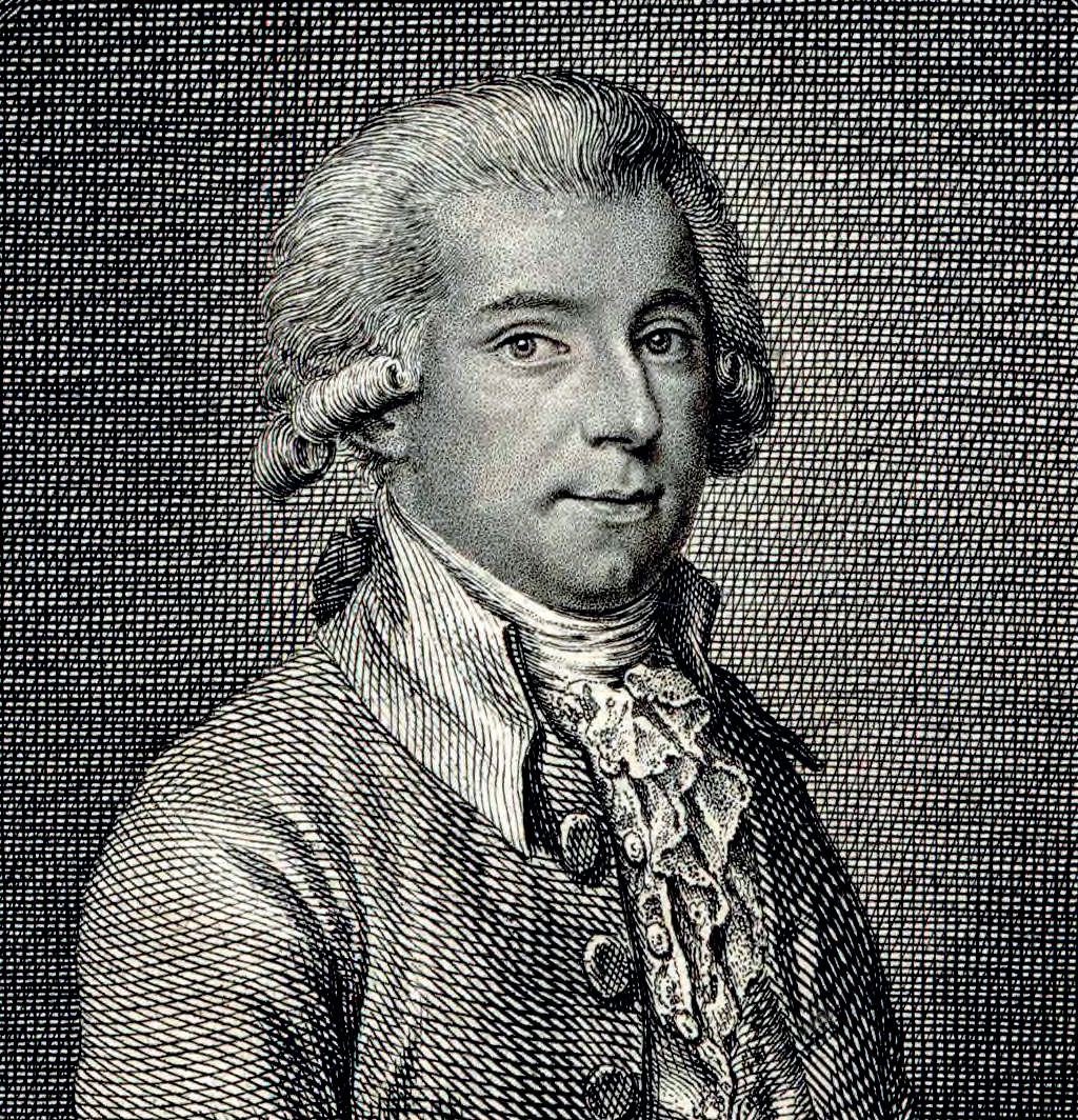 Vicente Martin y Soler, 23 years old. Portrait of Jacob Adam in Vienna, 1787, from Joseph Kreützinger. National Library of France.